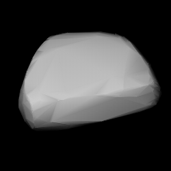 3D convex shape model of 4492 Debussy, computed using light curve inversion techniques. J. Hanuš, J. Ďurech, M. Brož, B. D. Warner (June 2011). "A study of asteroid pole-latitude distribution based on an extended set of shape models derived by the lightcurve inversion method". Astronomy and Astrophysics 530: A134. ISSN 0004-6361. arXiv